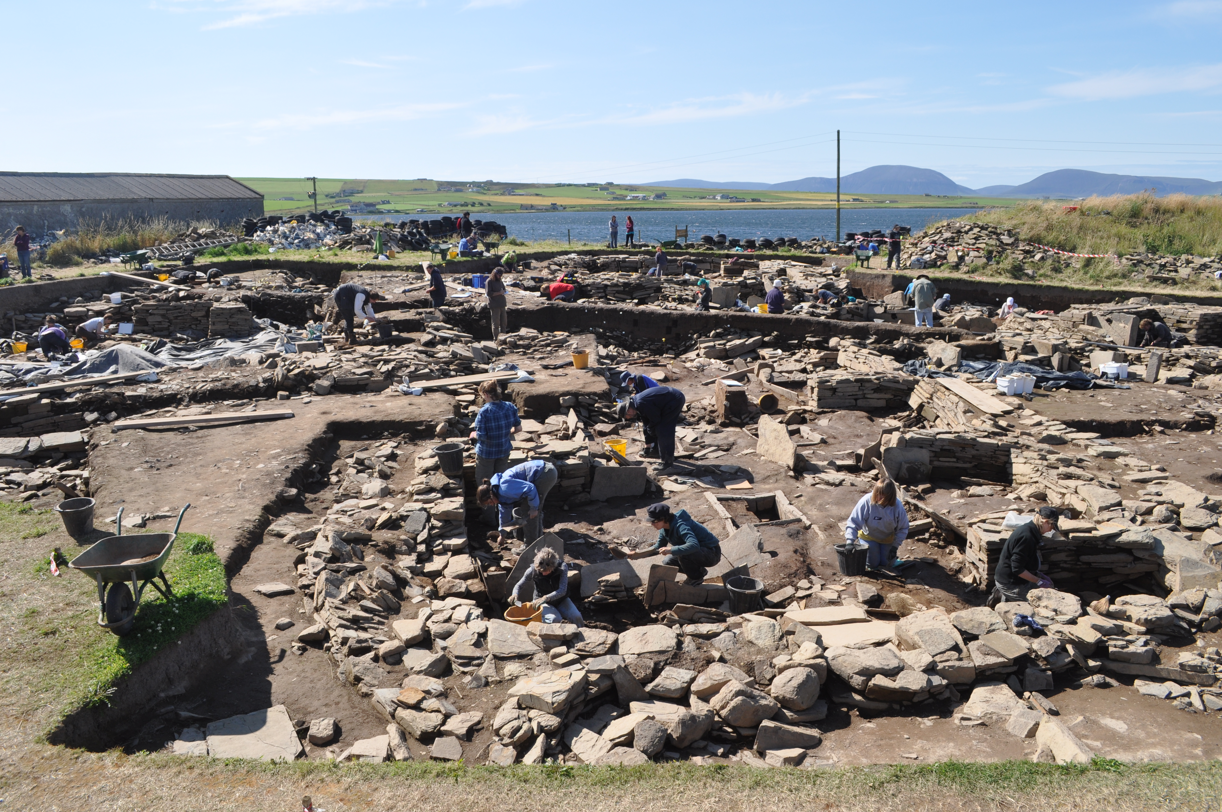 Archaeologists at work at the Ness of Brodgar site on Orkney, Scotland, on 5th August 2014.